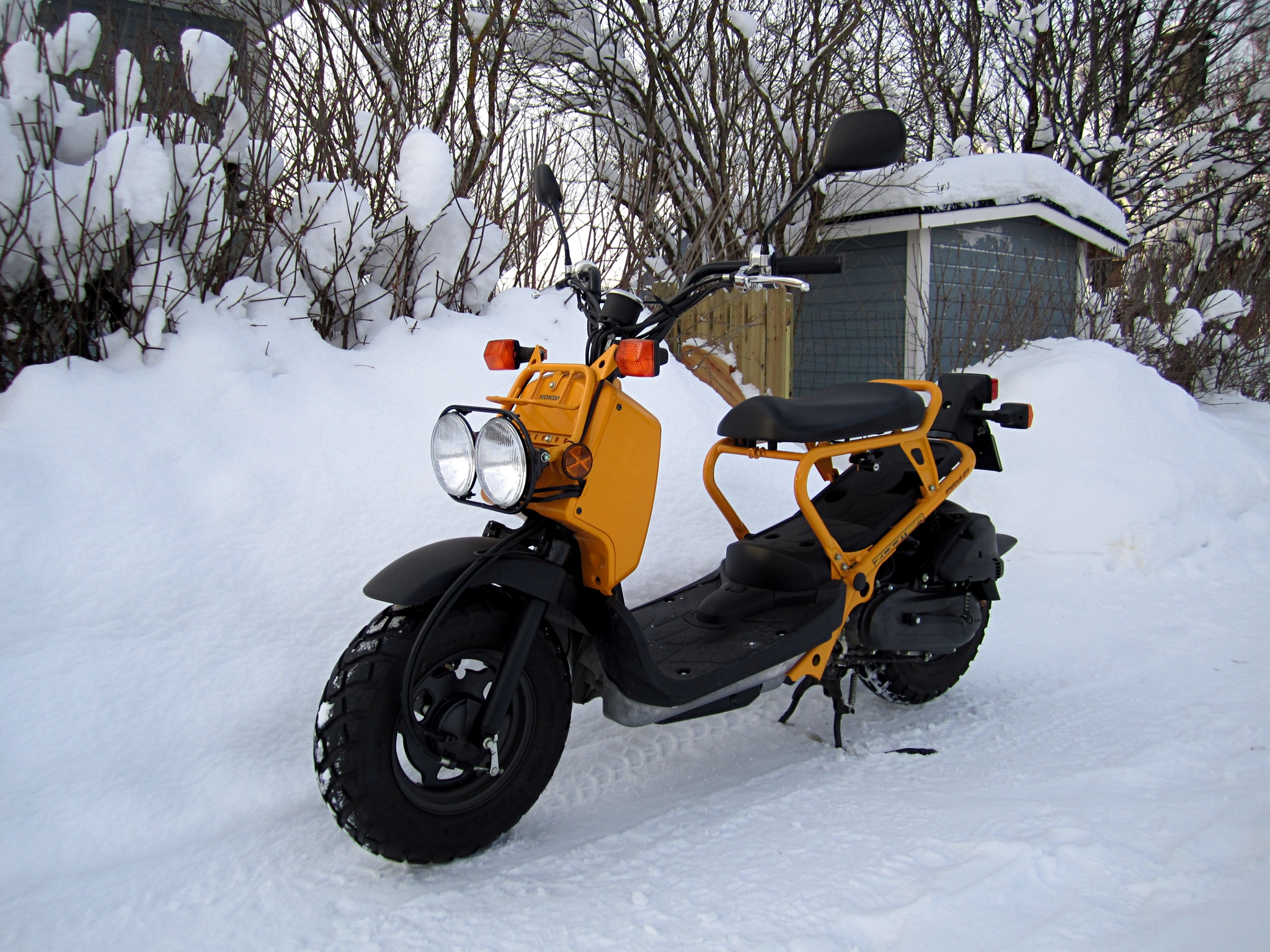 Honda's motor scooter Zoomer (Ruckus) out on a nice winter day.